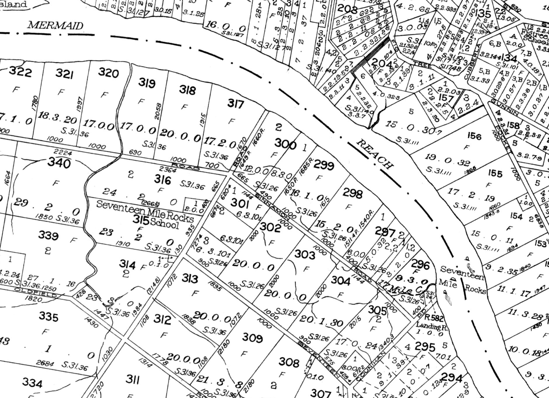 Showing the location of the Seventeen Mile Rocks as they were in 1962 crossing the Brisbane River, before they were destroyed in the 1960 to improve the navigability of the river.